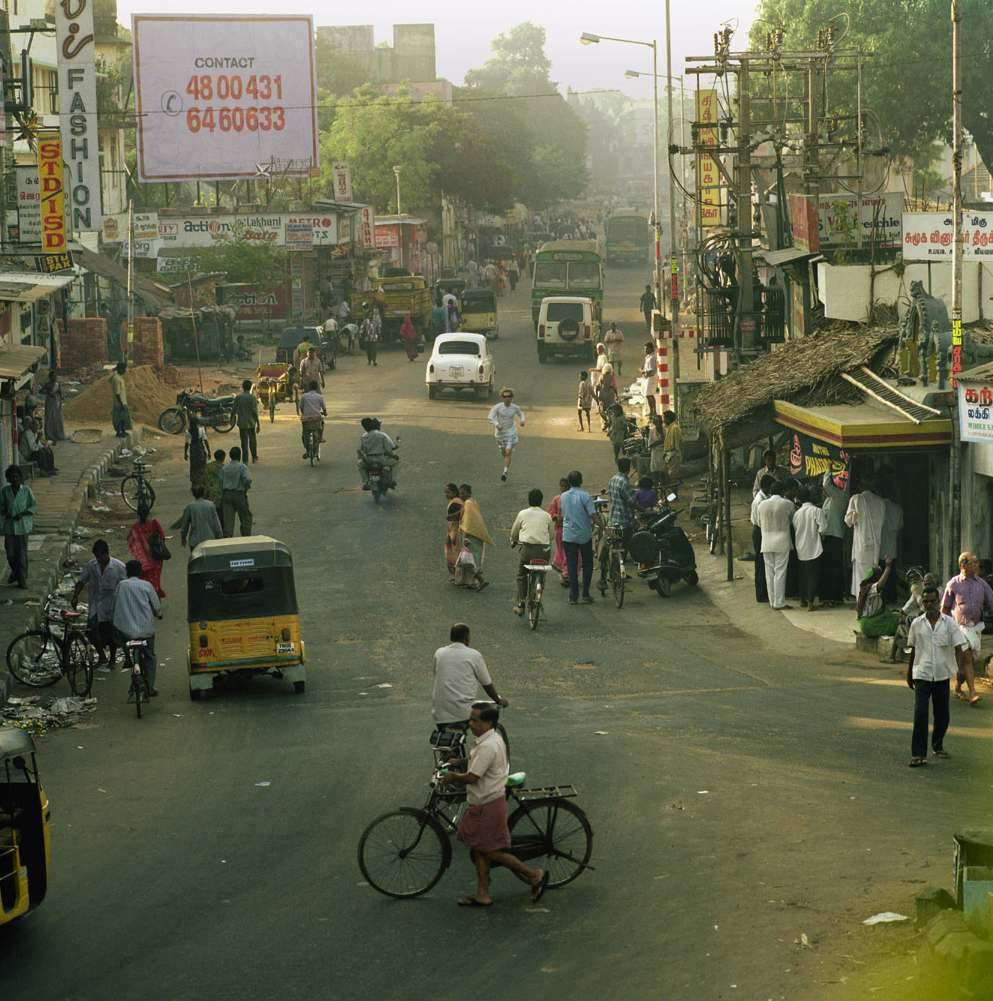 C-print on diabond, 141 x 143 cm, edition of 3